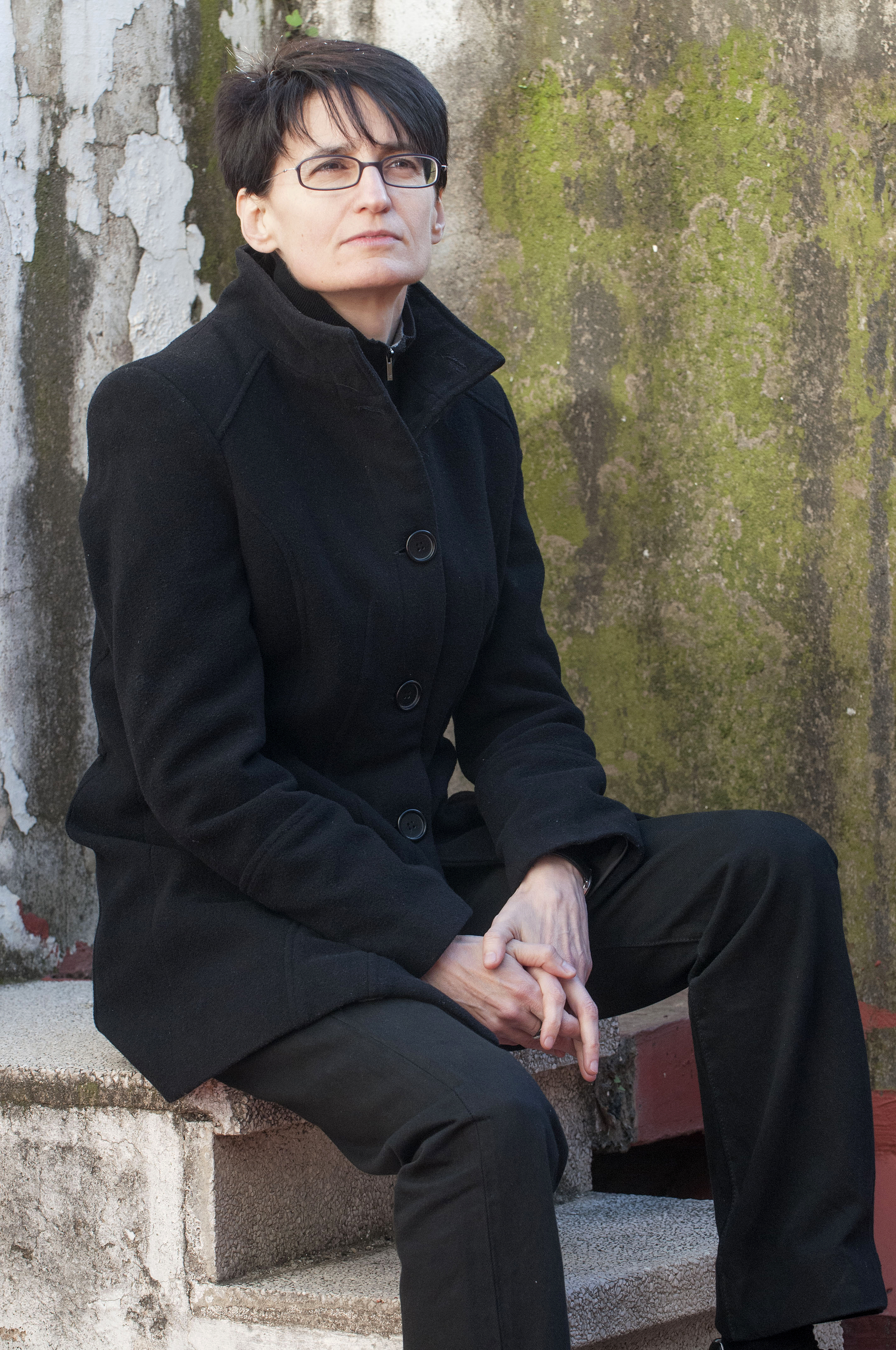 Festa de les Lletres Catalanes 2014. + Fotos: Òmnium / Dani Codina